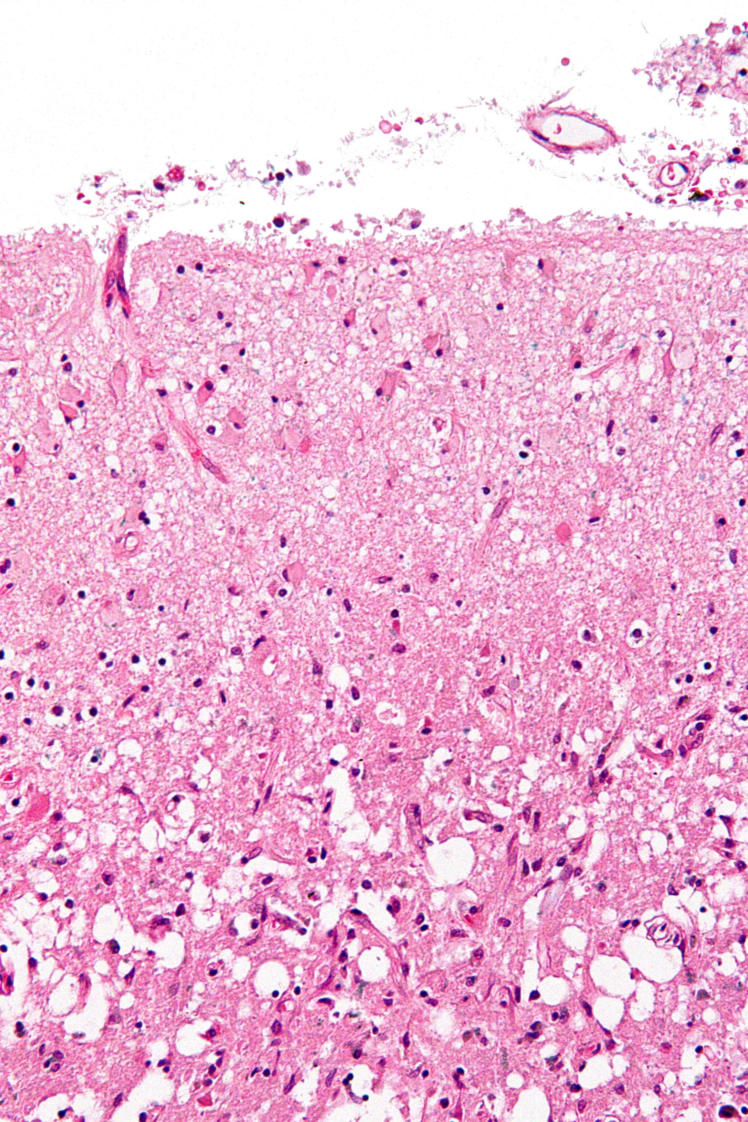 High magnification micrograph showing reactive astrocytes in massive cerebral ischemia leading to pseudolaminar necrosis. H&E-LFB stain. Related images Very low mag. Intermed. mag. High mag.